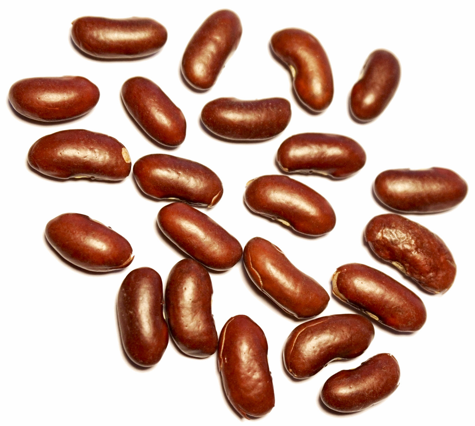 Kidney beans.